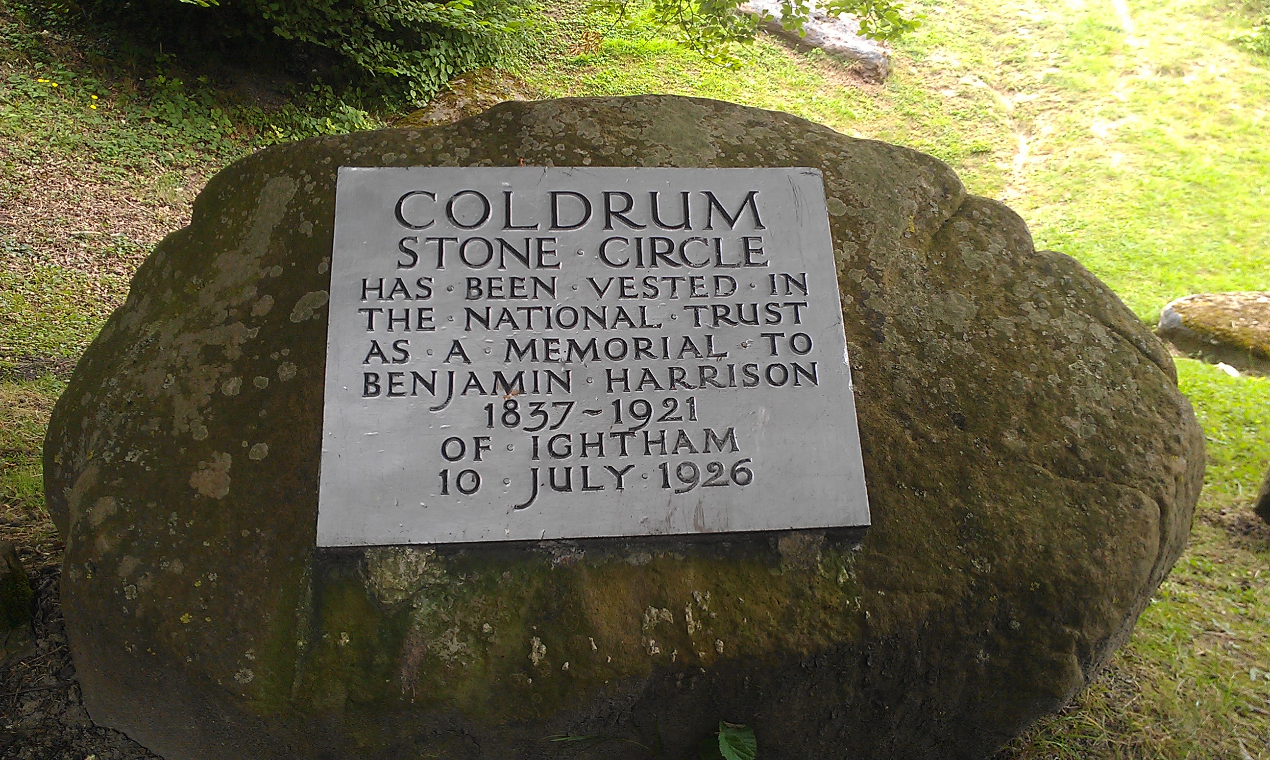 Epigraph erected by The National Trust at Coldrum Long Barrow, Kent.